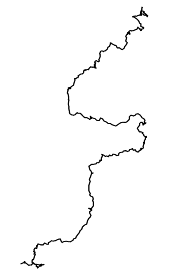 A coastline - similar to a fractal